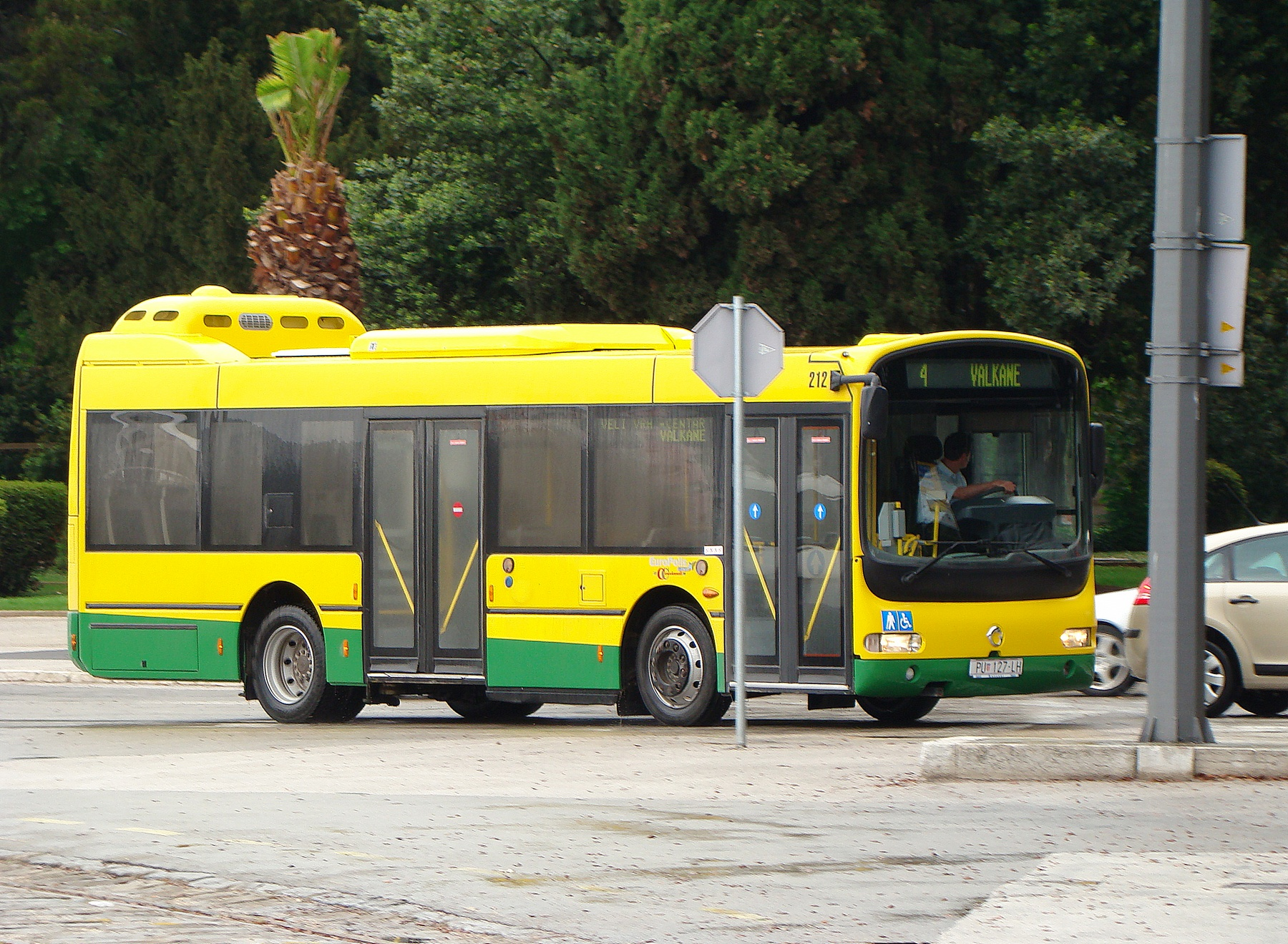 A Pulapromet bus